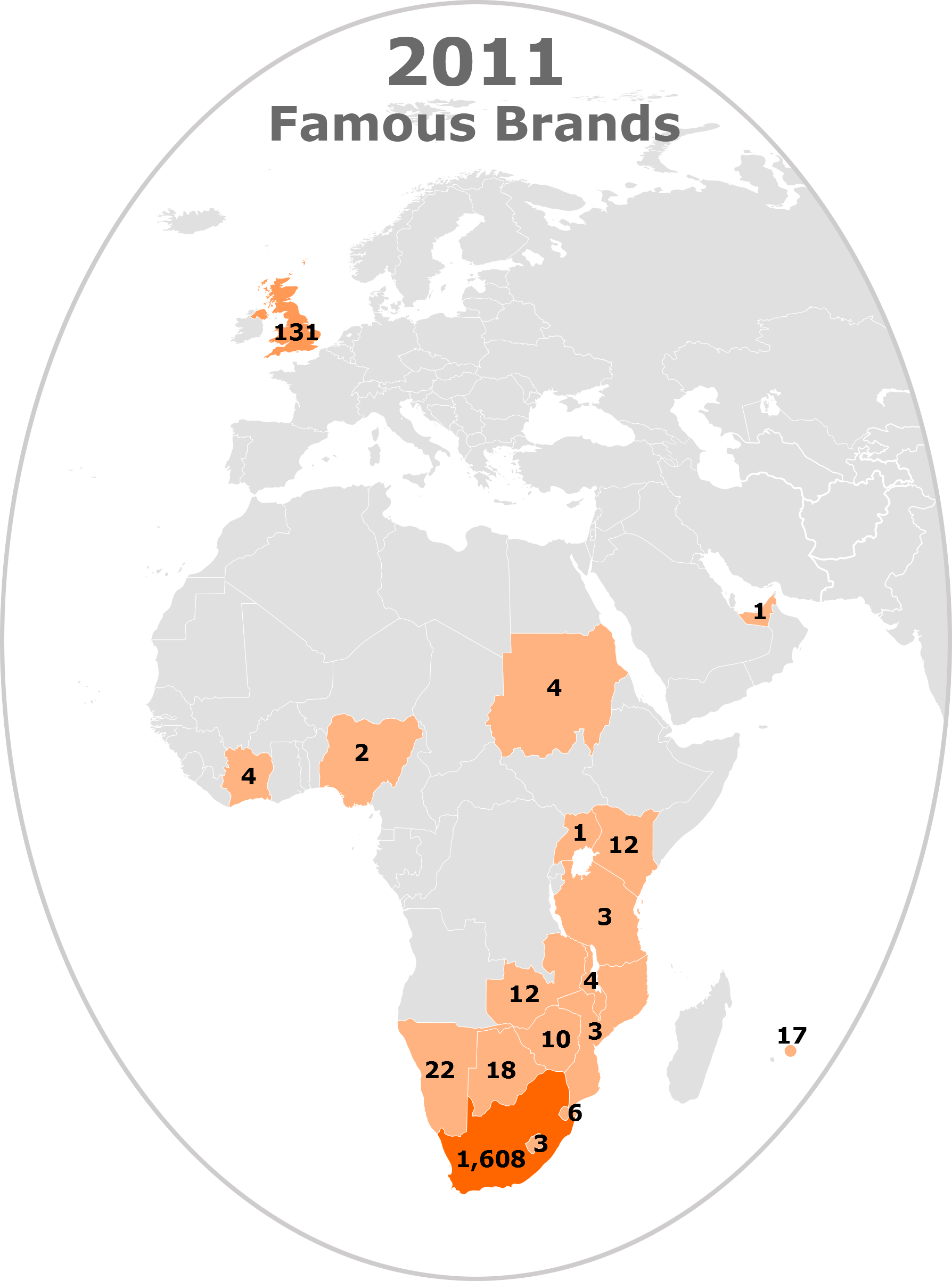 This map illustrates the country location and number of outlets that Famous Brands has across the world. The map focuses on countries in Europe, Africa and the Middle East where the entirety of Famous Brands outlets are located.